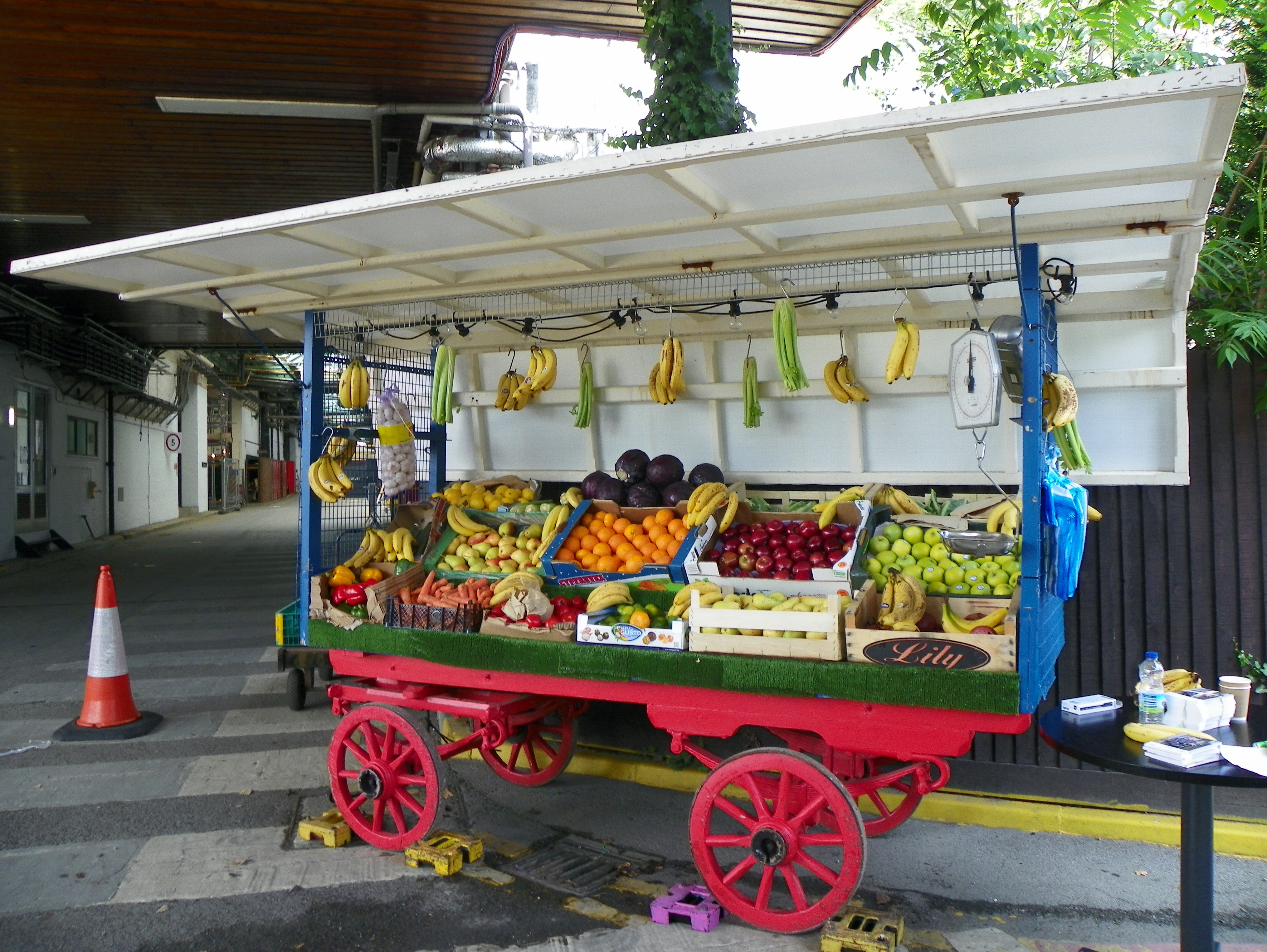 The fruit and veg stall from EastEnders, on display at the EastEnders Meet and Greet event.